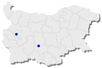 Location of the two largest cities of Bulgaria - Sofia and Plovdiv